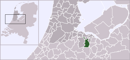 Location of Hilversum